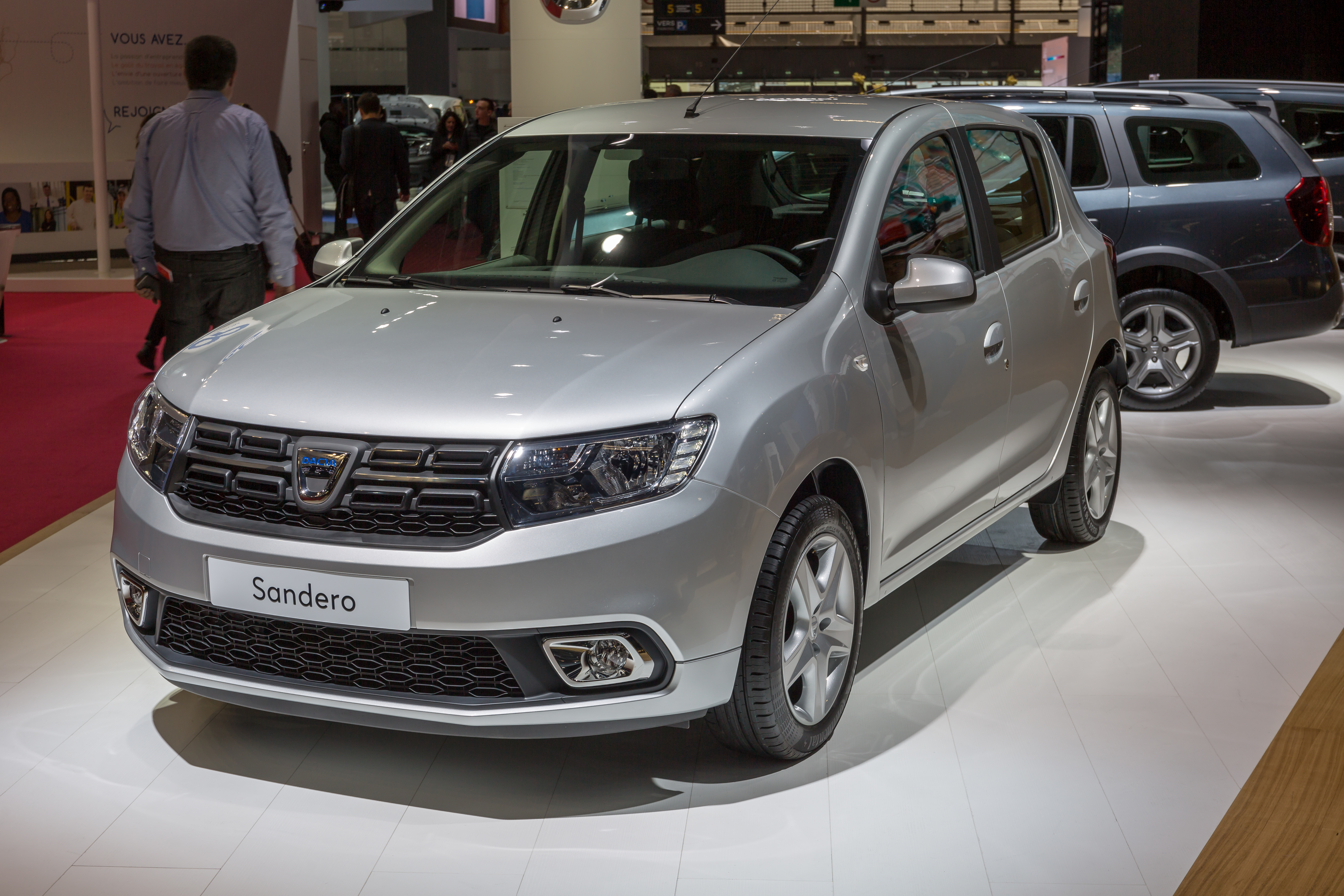 Dacia Sandero II at Mondial Paris Motor Show 2018